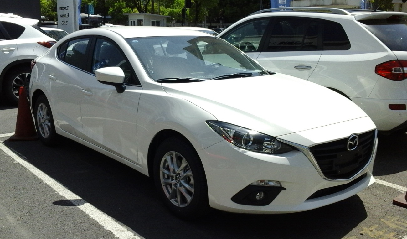 Mazda 3 Axela sedan photographed in Shanghai, China.